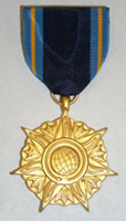 NASA Distinguished Public Service Medal.